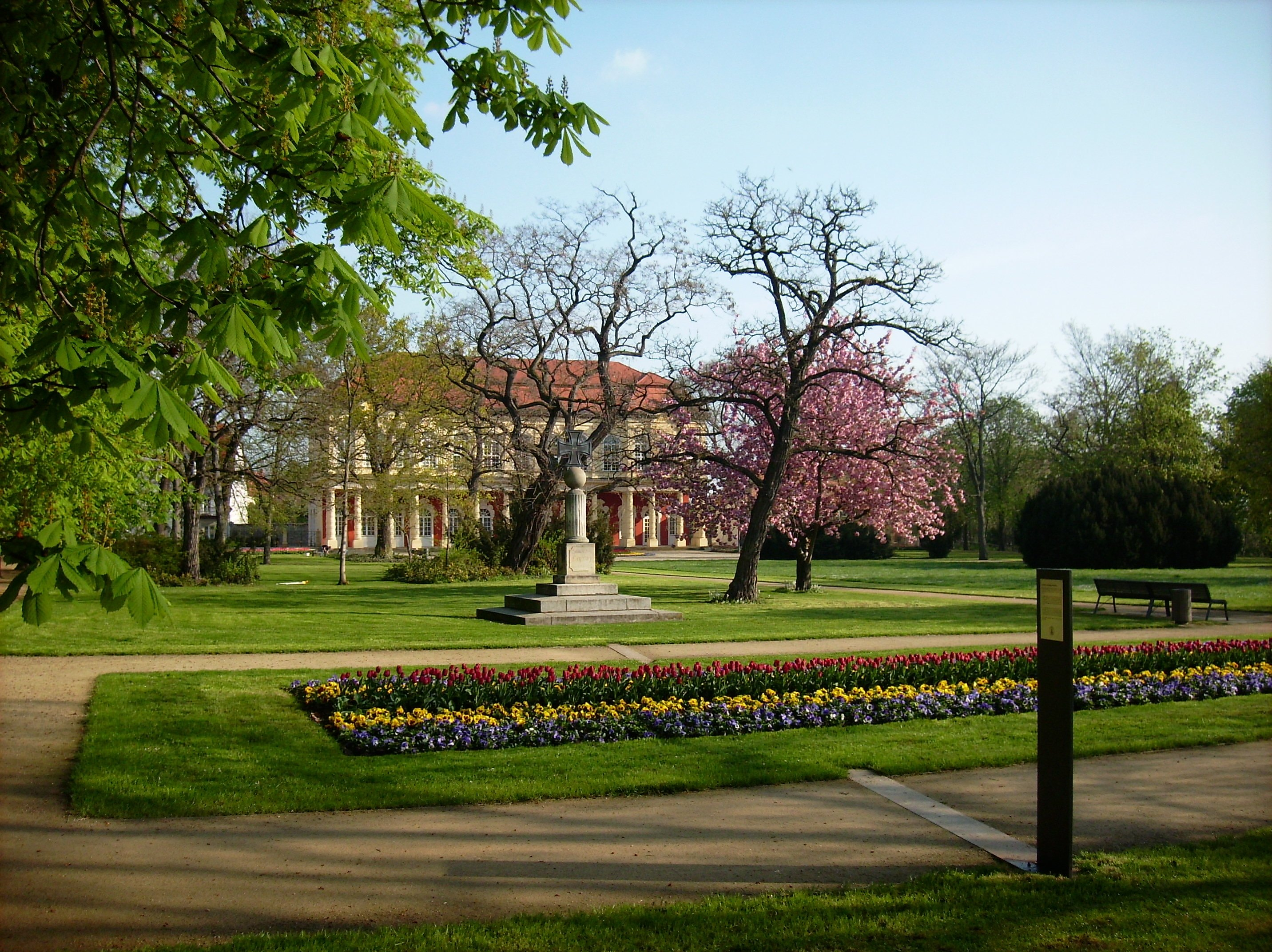 Springtime in the gardens of Merseburg Castle (district of Saalekreis, Saxony-Anhalt)